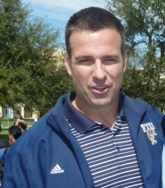 FIU football head coach Mario Cristobal at FIU's celebration of its 2010 Little Caesars Pizza Bowl title.